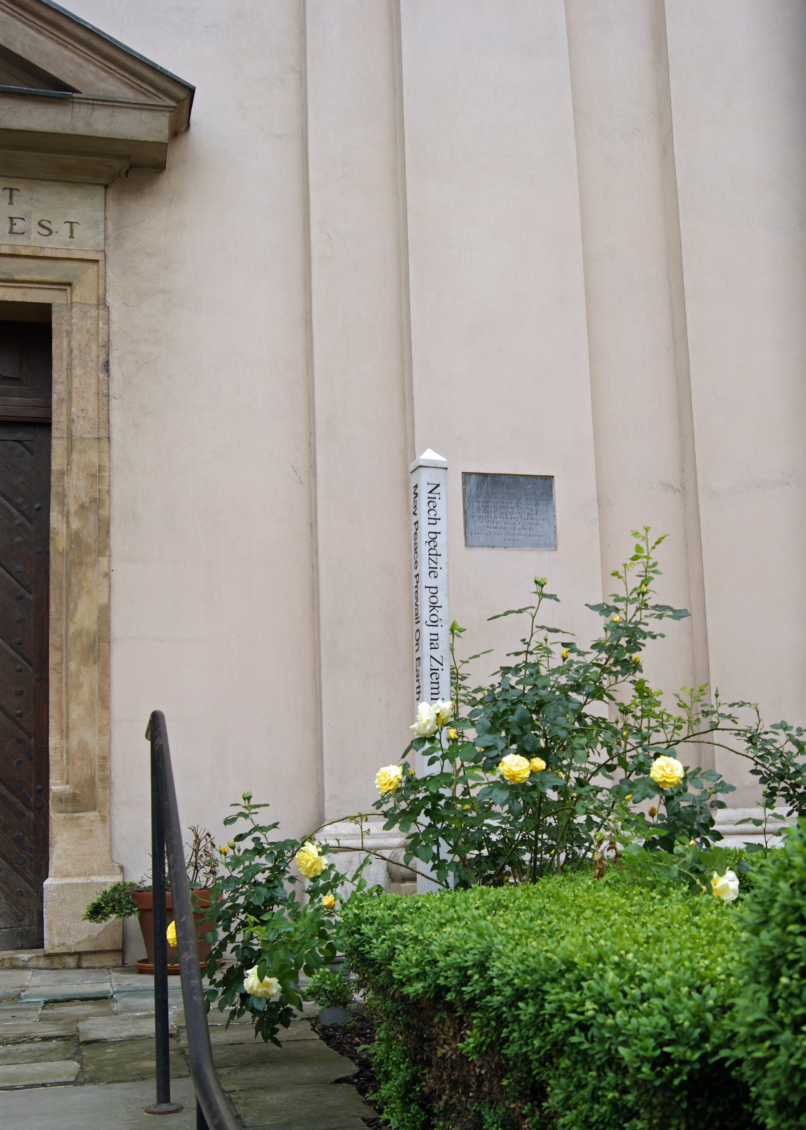 Peace Pole, St. Martin's Church, 58 Grodzka str, Old Town, Krakow, Poland